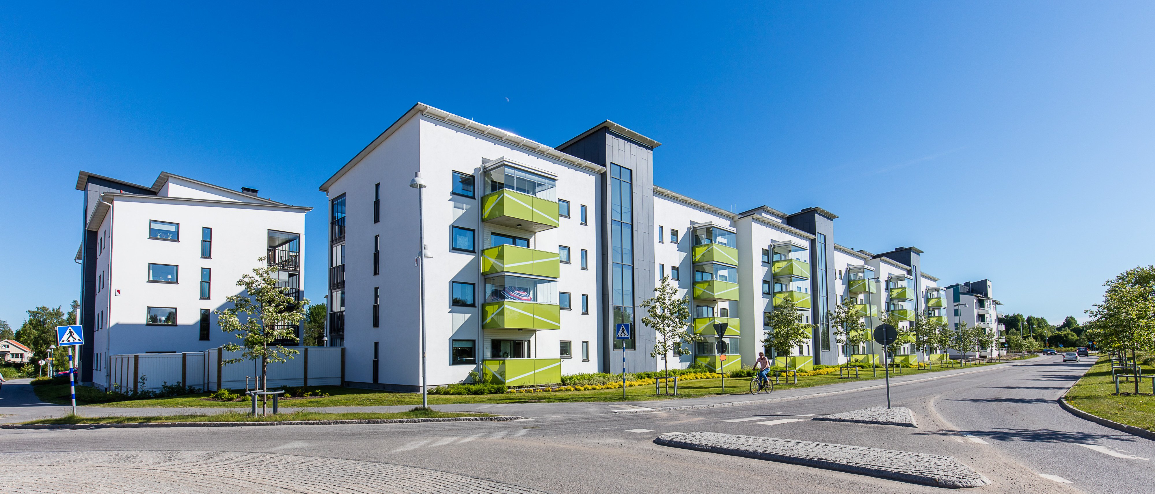 The Sandåkern district in Umeå was built on a former football pitch, Sandåkerns IP.